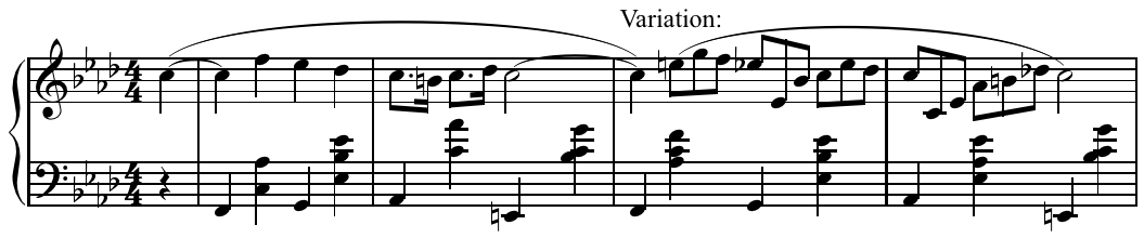 Phrase and variation from Chopin's (1810[2]–1849) Nocturne in F Minor.